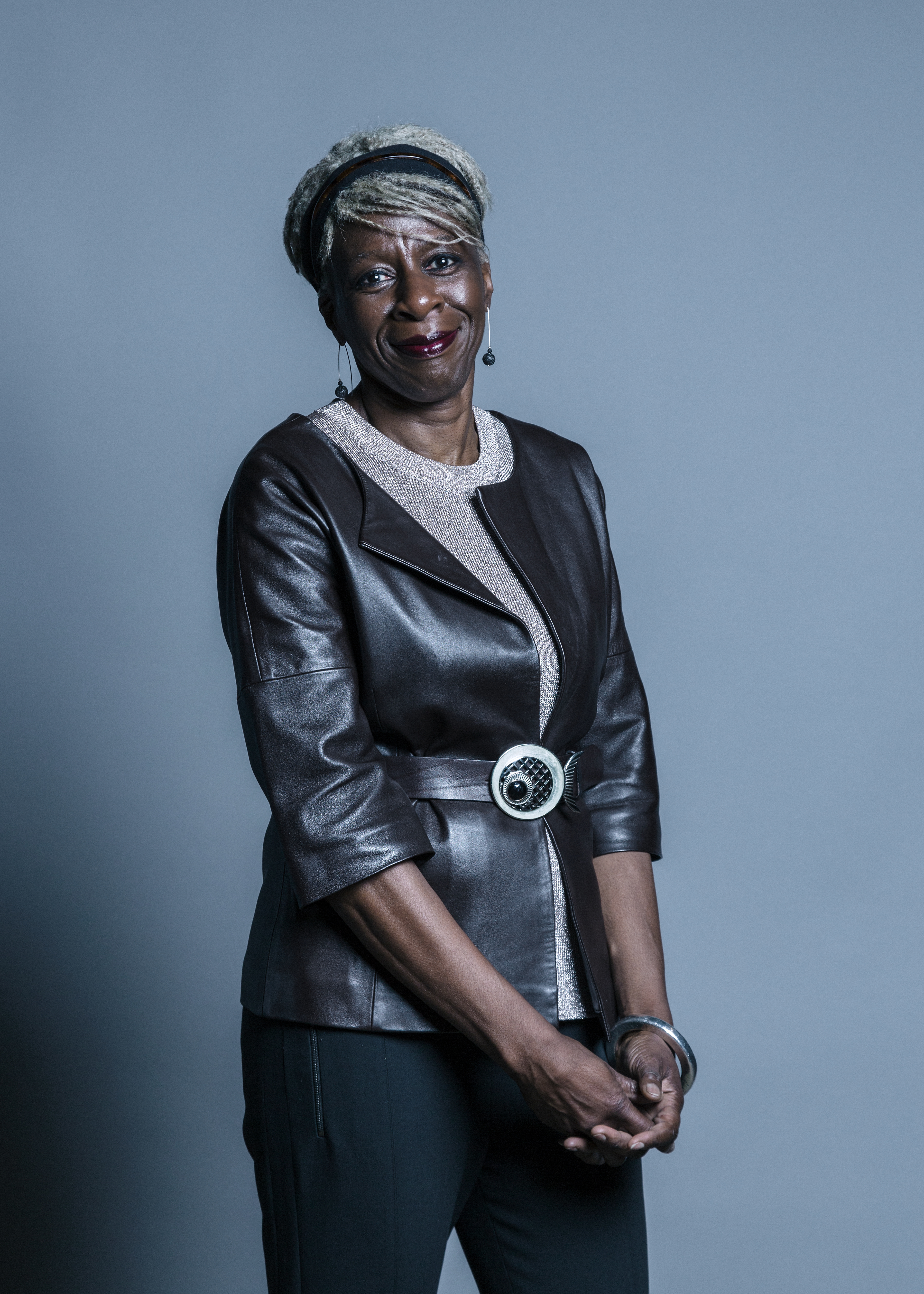 The Right Honourable Margaret Omolola Young, Baroness Young of Hornsey, Officer of Her Majesty's Most Excellent Order of the British Empire